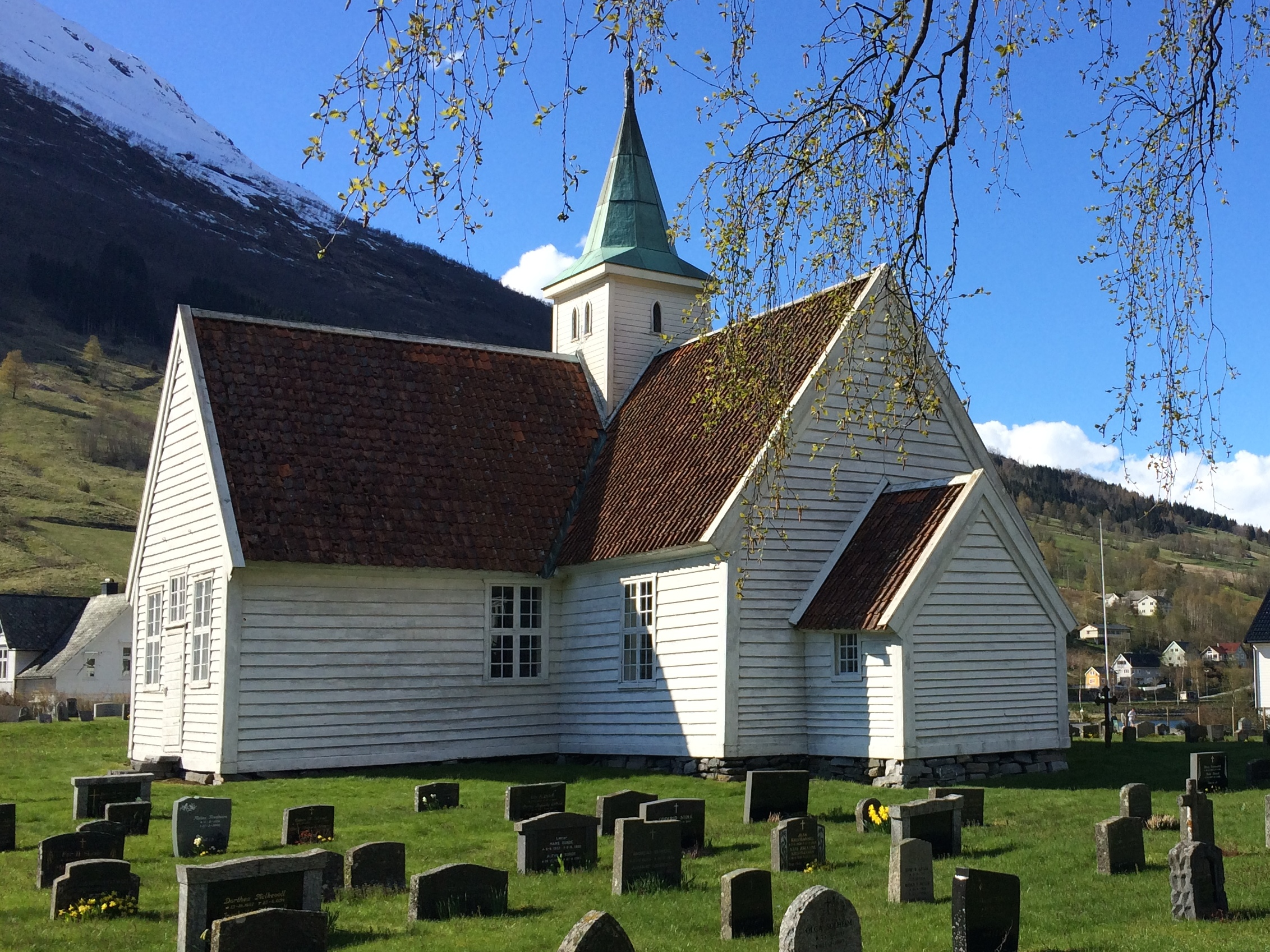 Olden Old Church in Olden, Stryn Municipality, Sogn og Fjordane, Norway. 28th April, 2015.